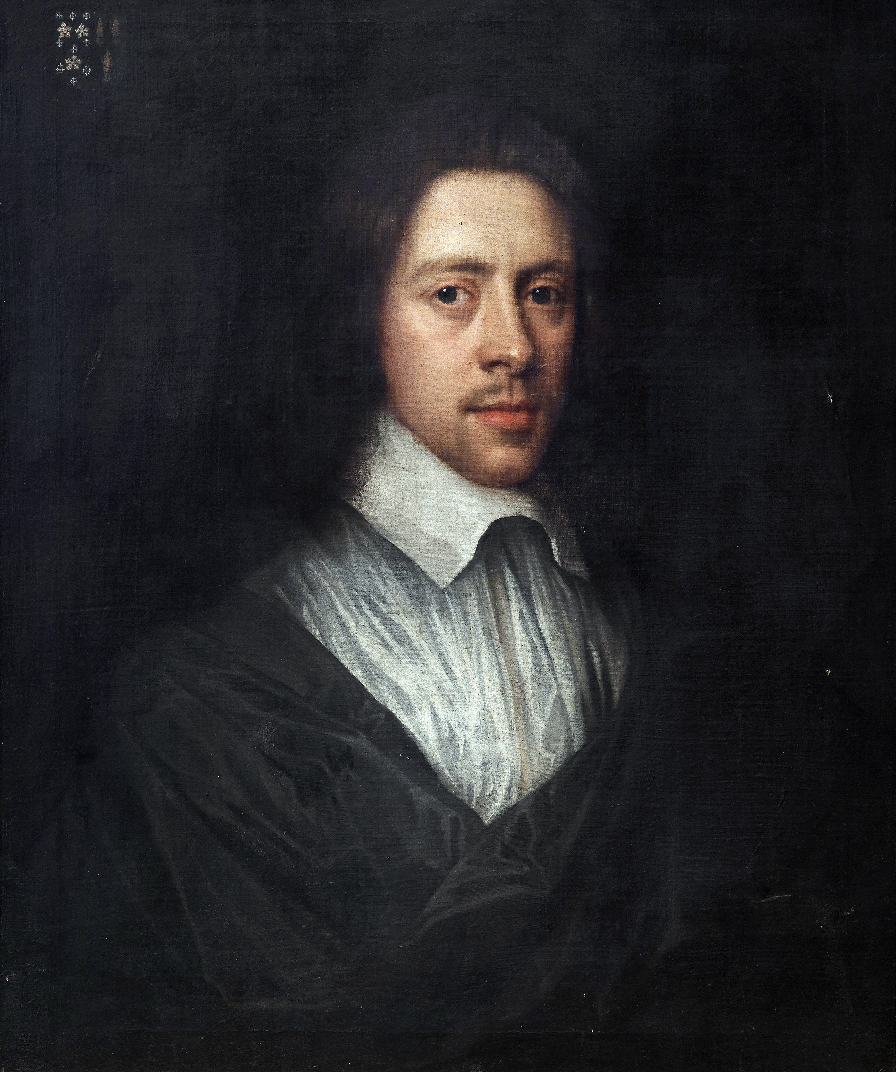 Conyers Darcy, 2nd Earl of Holderness (1622-92) oil on canvas 74.9 x 60.7cm